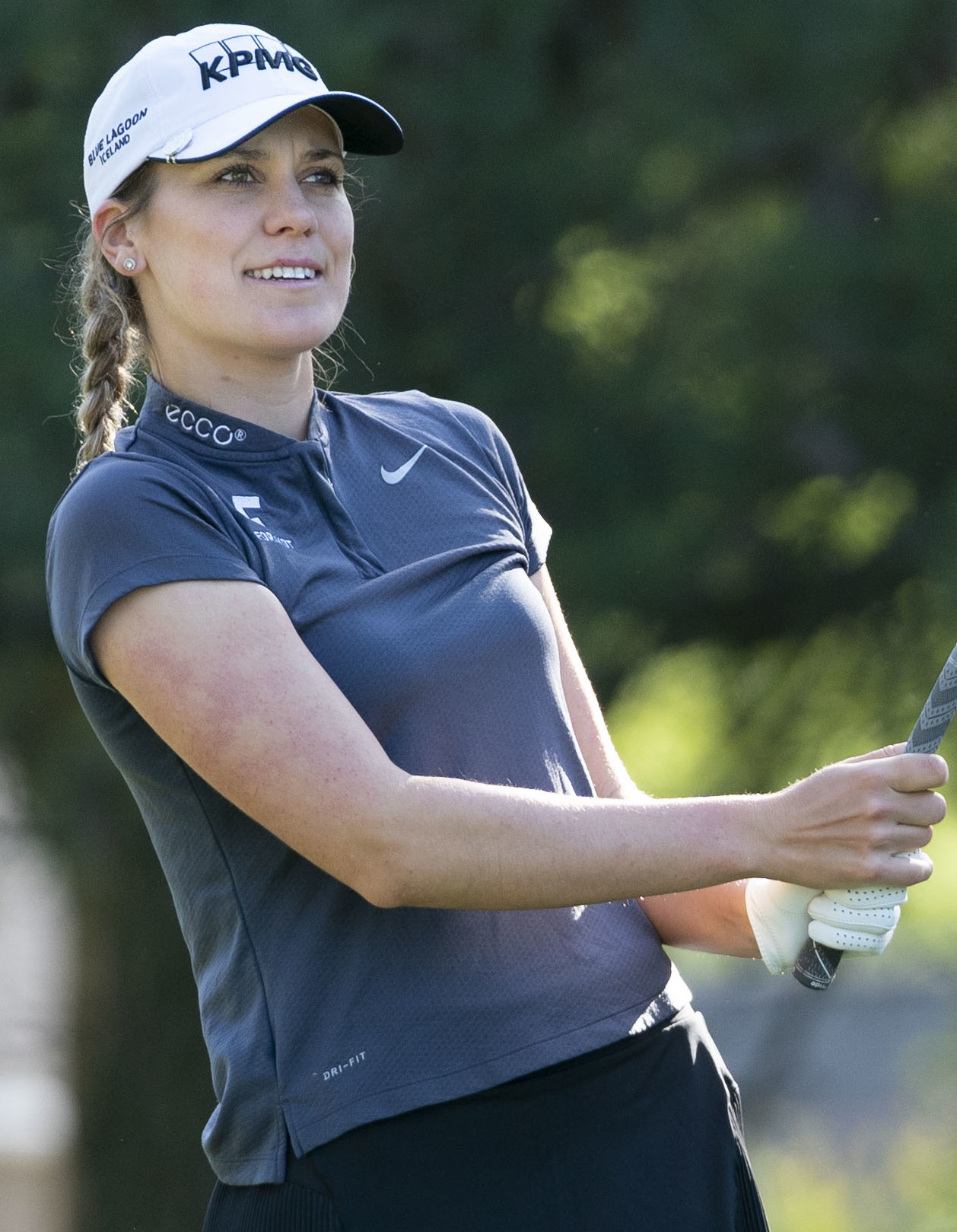 Pure Silk Championship 2019